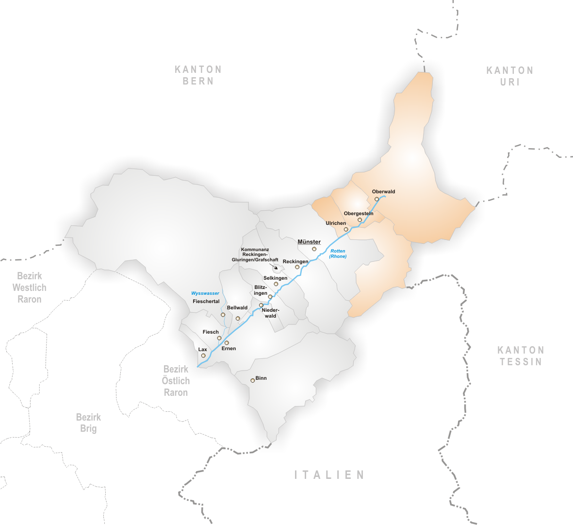 Municipalities of District Goms until 2008